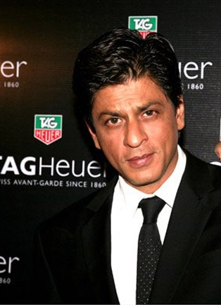 Indian actor Shahrukh Khan at TAG Heuer Press Conference, He is brand ambassador of the company.